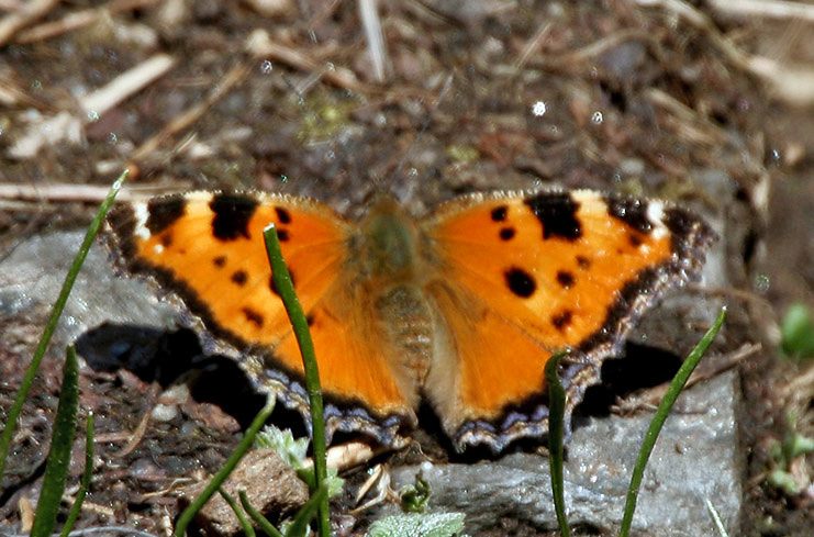 Large Tortoiseshell Nymphalis xanthomelas. Shot taken at Kullu Distt., Himachal, India during Sar Pass Trek (around 11500 ft.)on way to Tlla Lotani (12500 ft.).